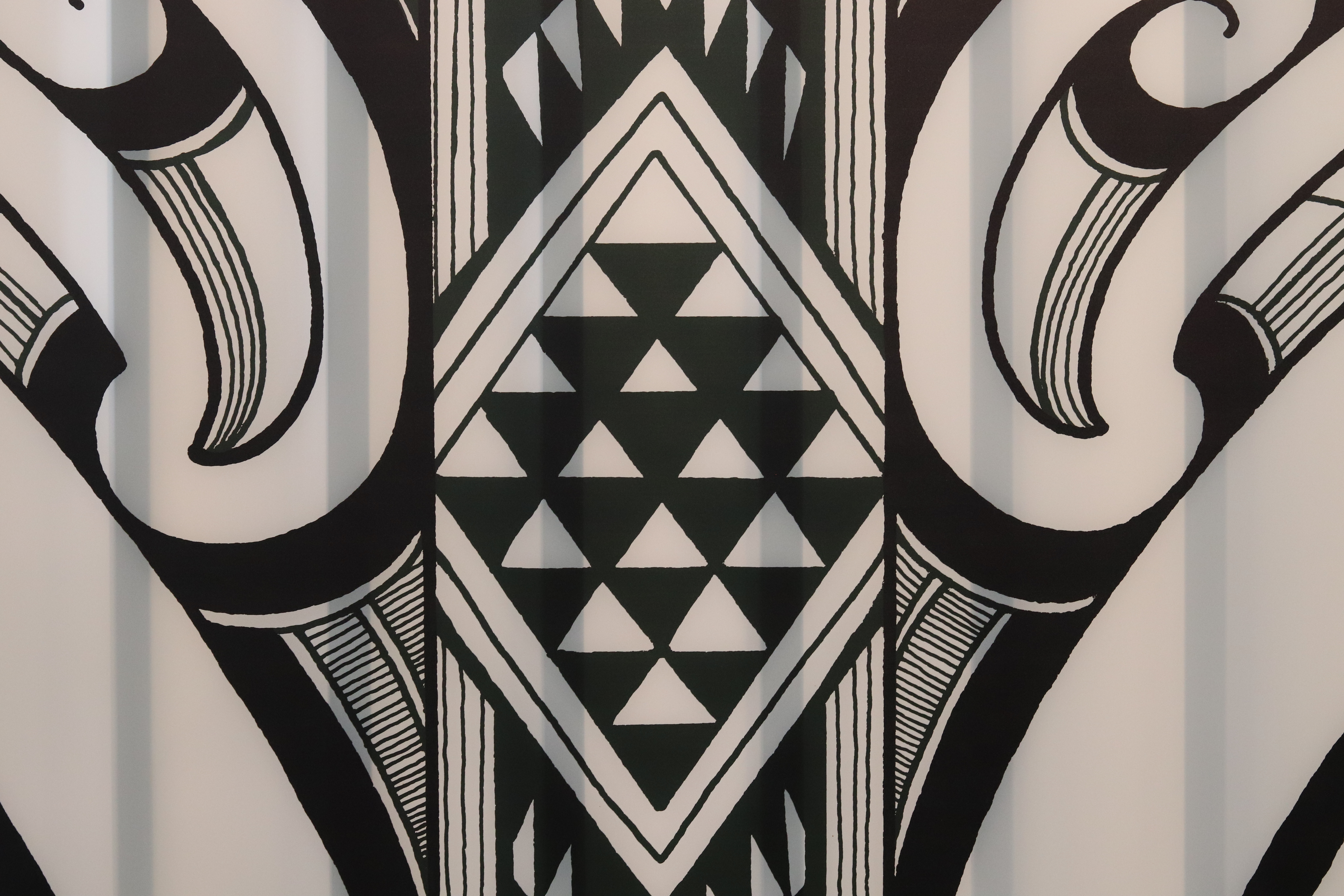 Maori Design